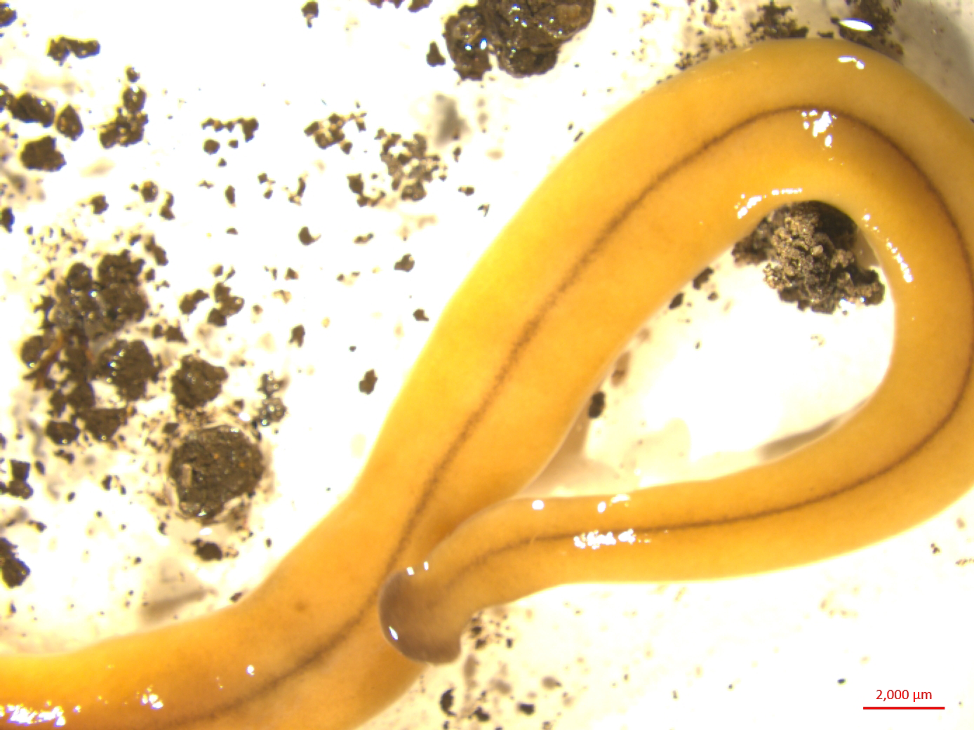 Figure 1b. Figure legend from paper Bipalium adventitium, anterior end, dorsal aspect. Note the fan-shaped headplate with darker anterior margin, and the dark median dorsal stripe that terminates before the headplate.